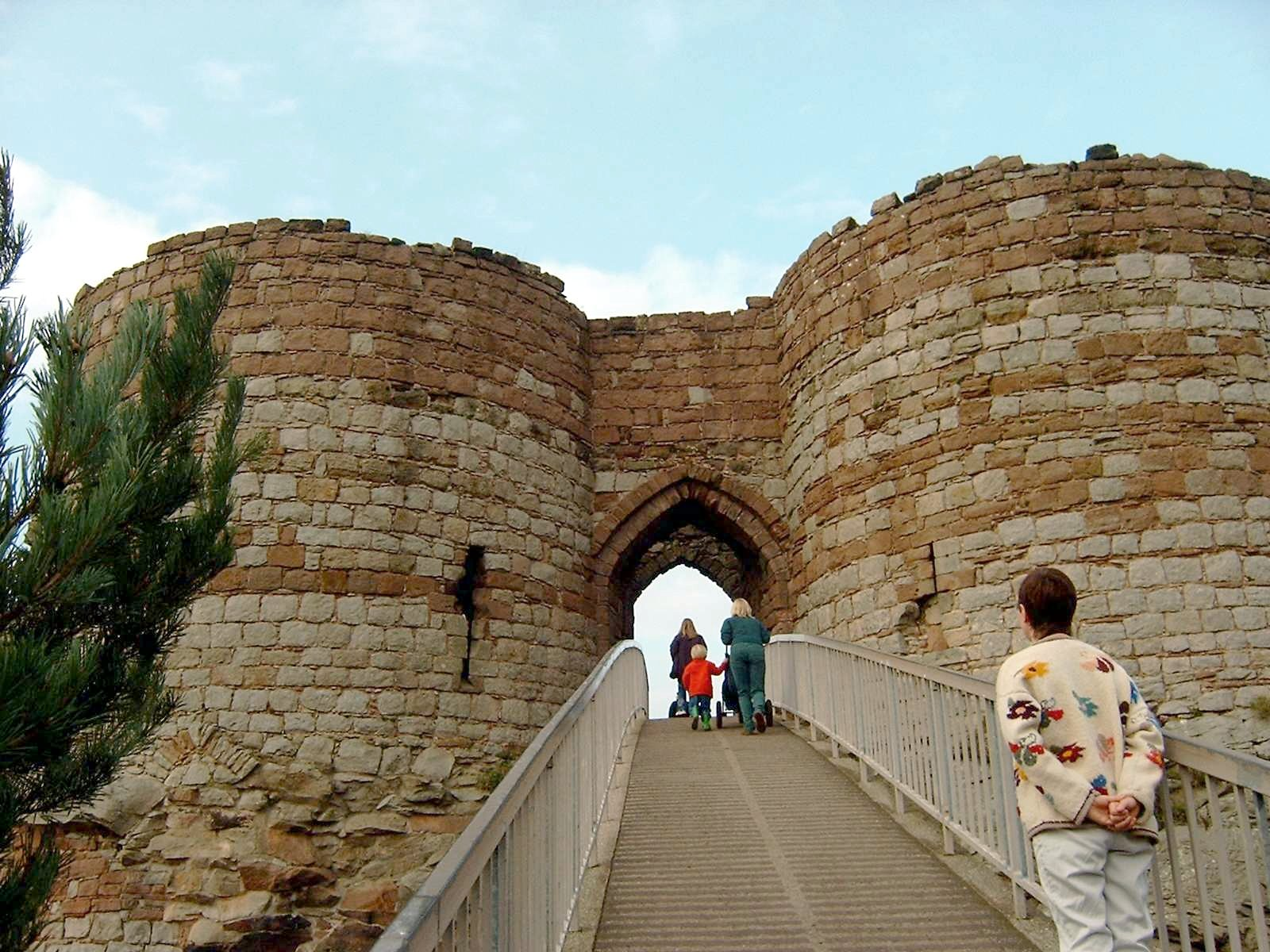 Beeston Castle in Cheshire, showing the gate to the main keep. Picture taken in October en:2004 by Billlion